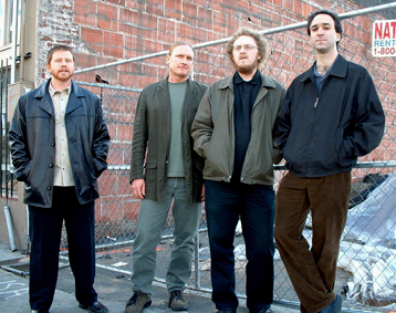 Cosmologic